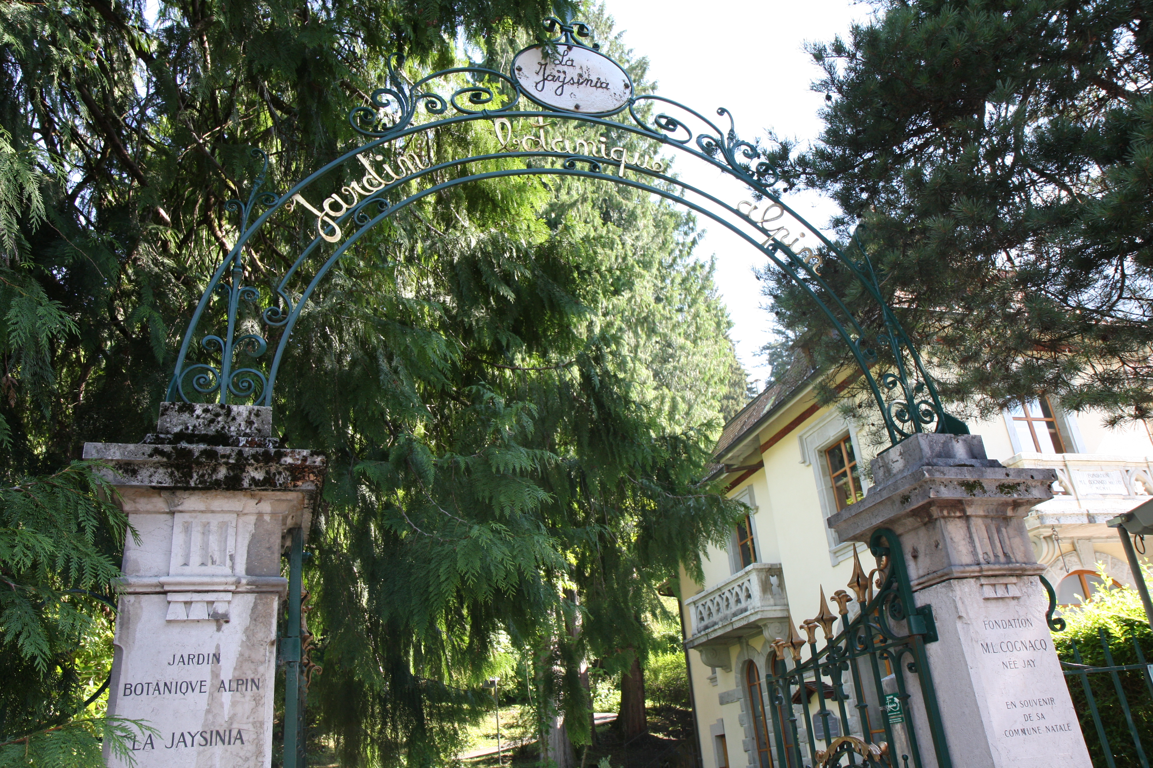 Alpine botanical garden La Jaÿsinia - Entrance